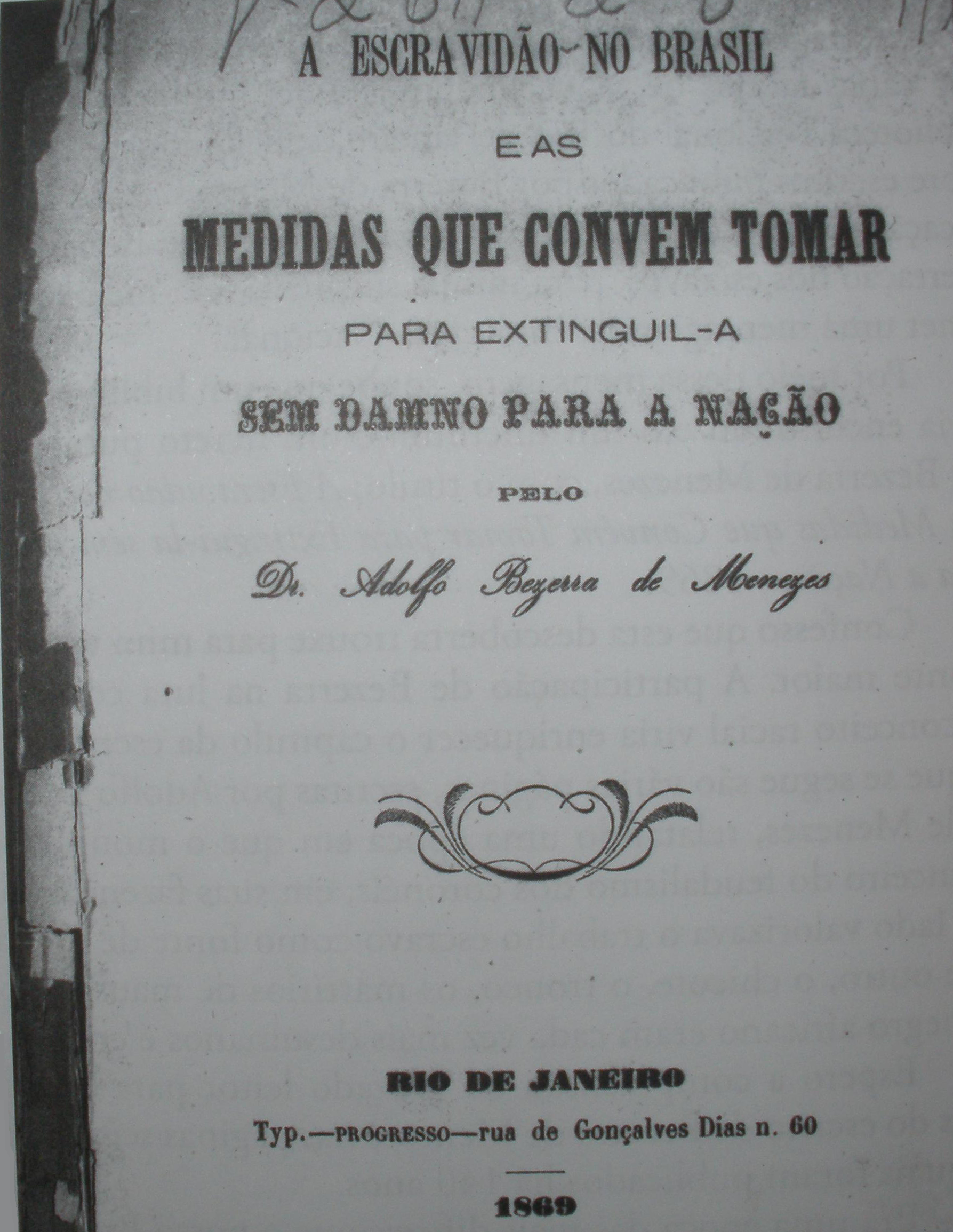 Short book "Slavery in Brazil and the measures ought to be taken to extinguish it without harm to the Nation", written by Bezerra de Menezes in 1869.